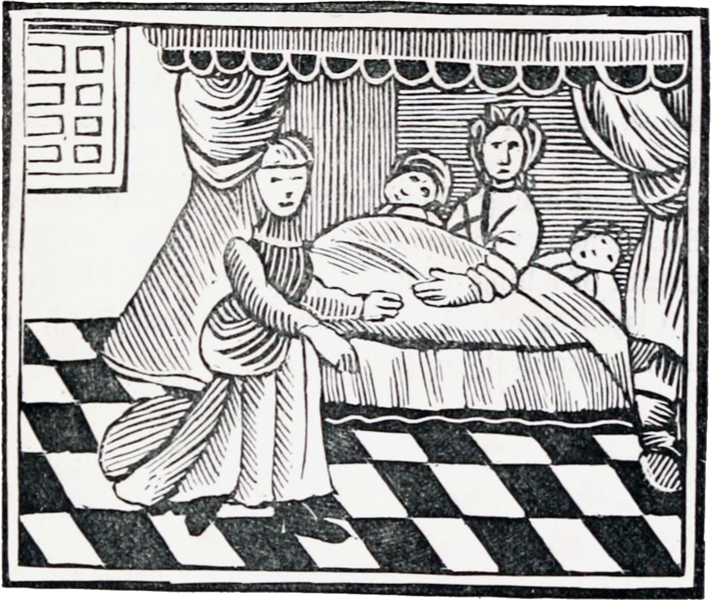 Illustration from an 18th century chapbook reproduced in Chap-books of the eighteenth century by John Ashton (1834).